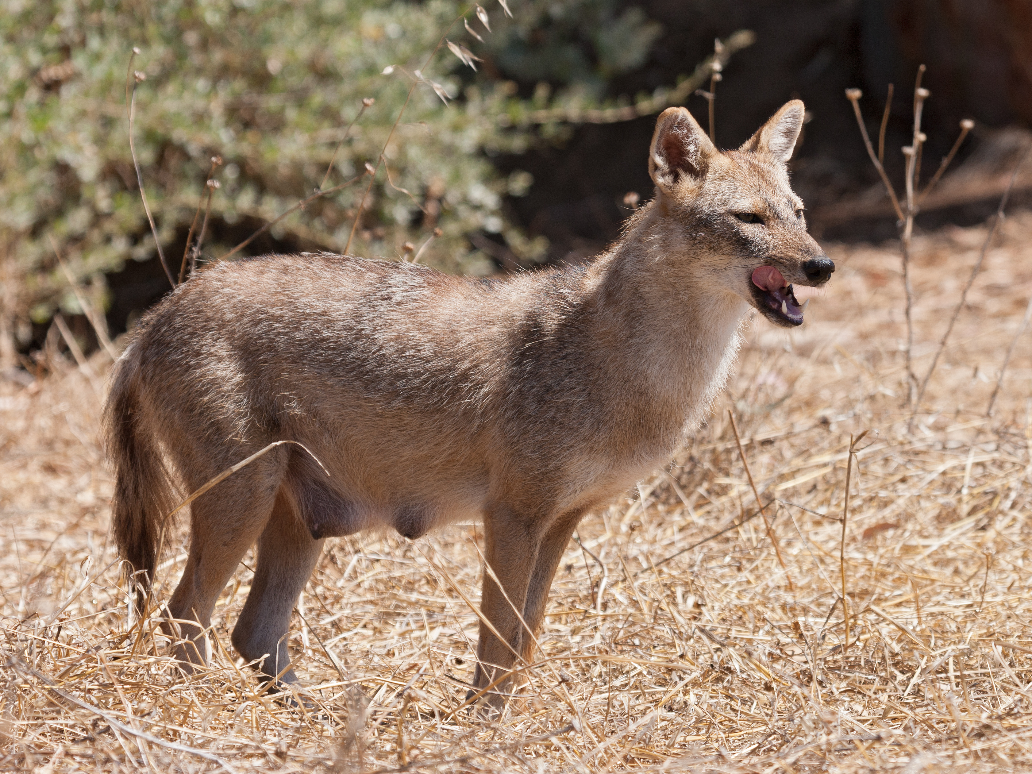 Golden jackal female at Yarkon park in Israel